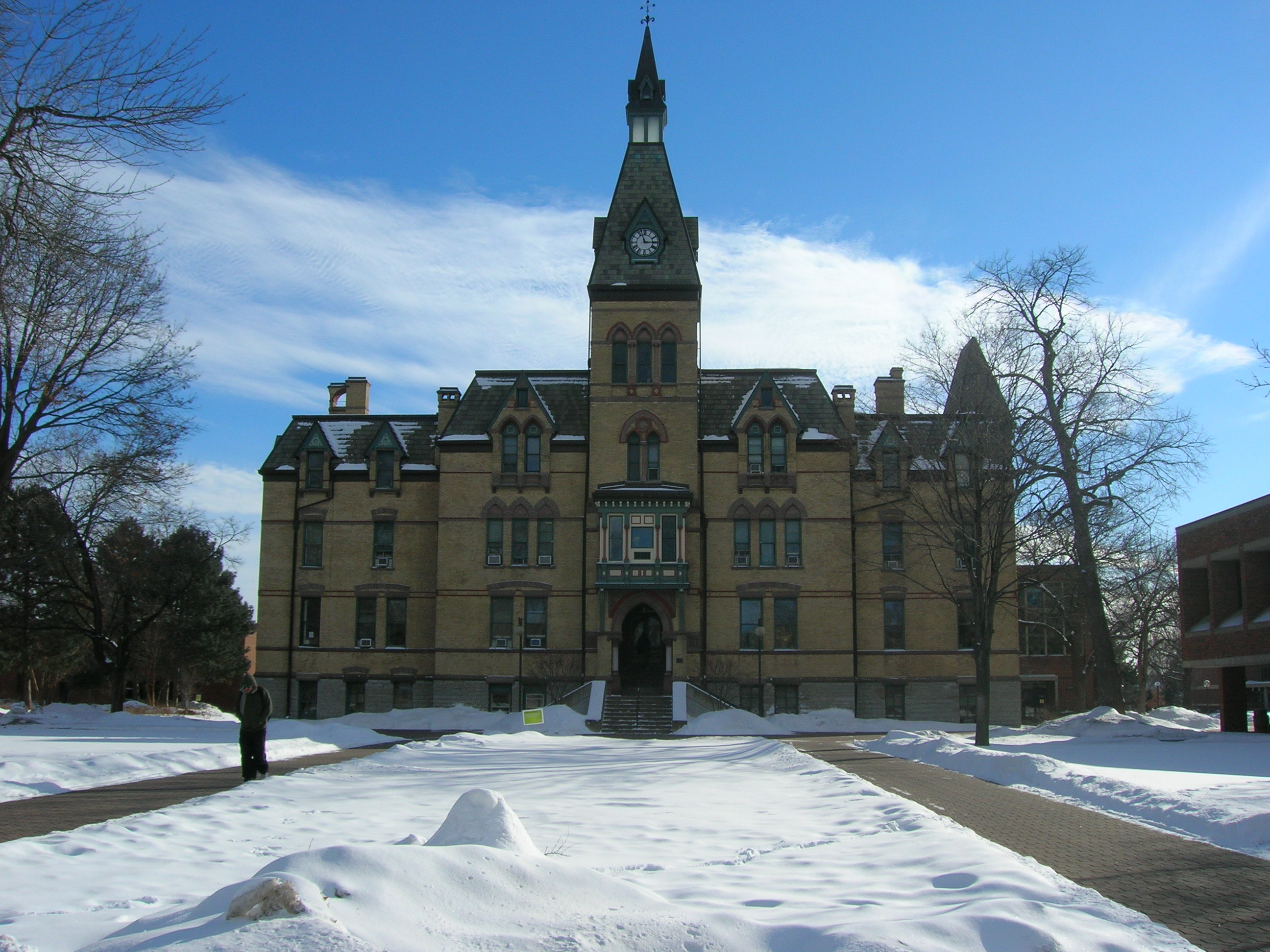 Old Main at Hamline University, in Saint Paul, Minnesota